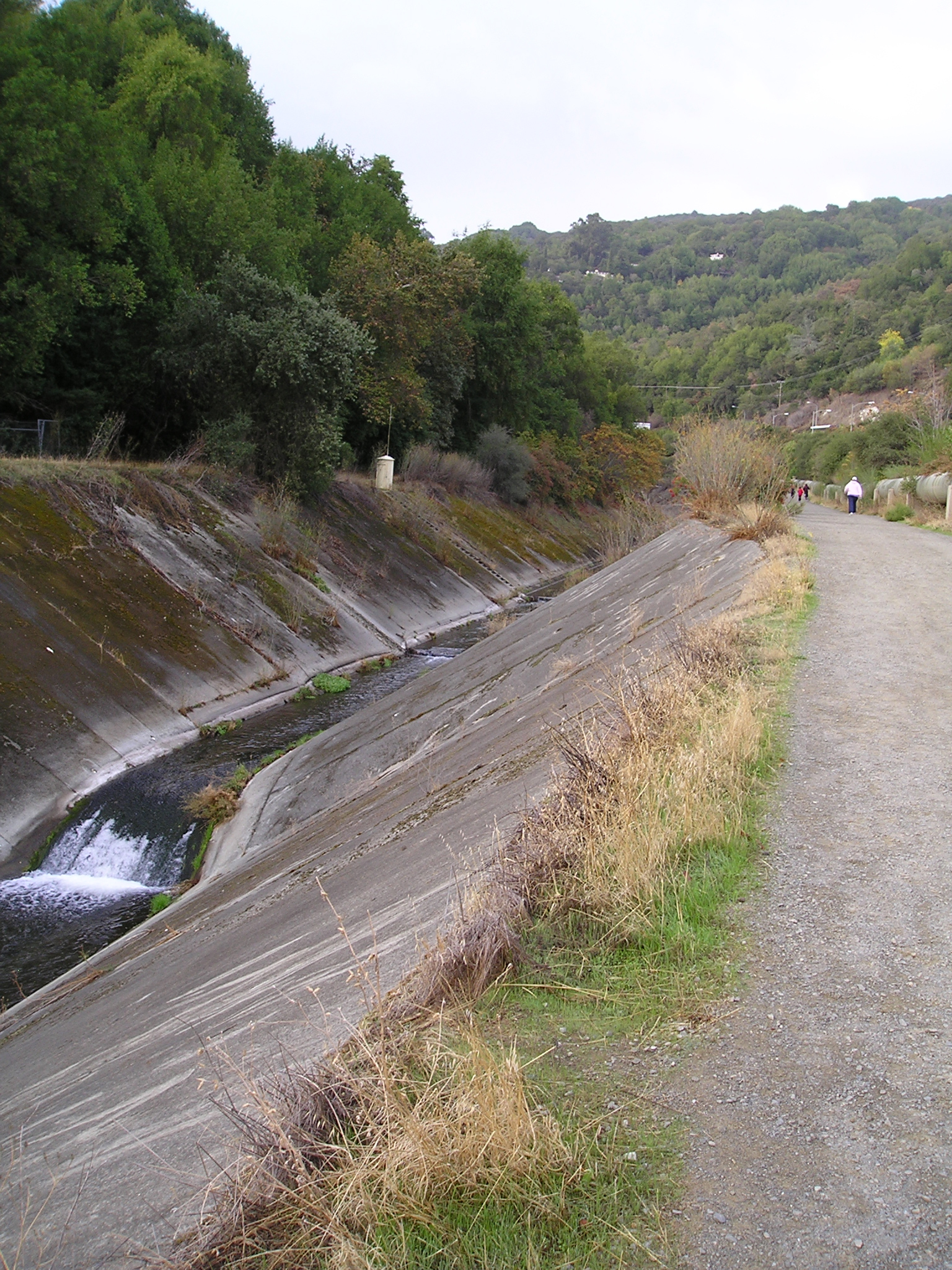 Waterfall in Los Gatos Creek along the Los Gatos Creek Trail